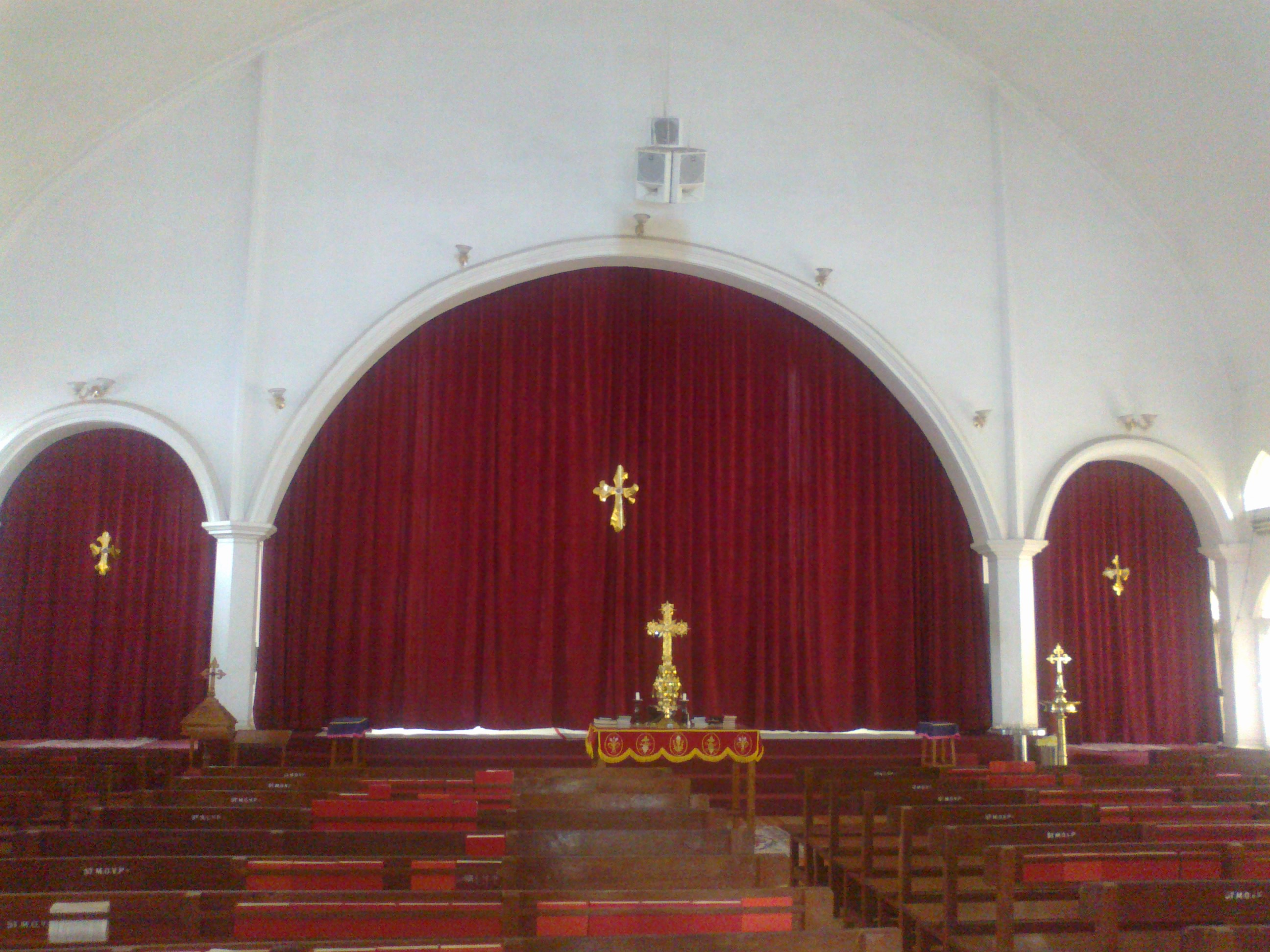 Inside the Church